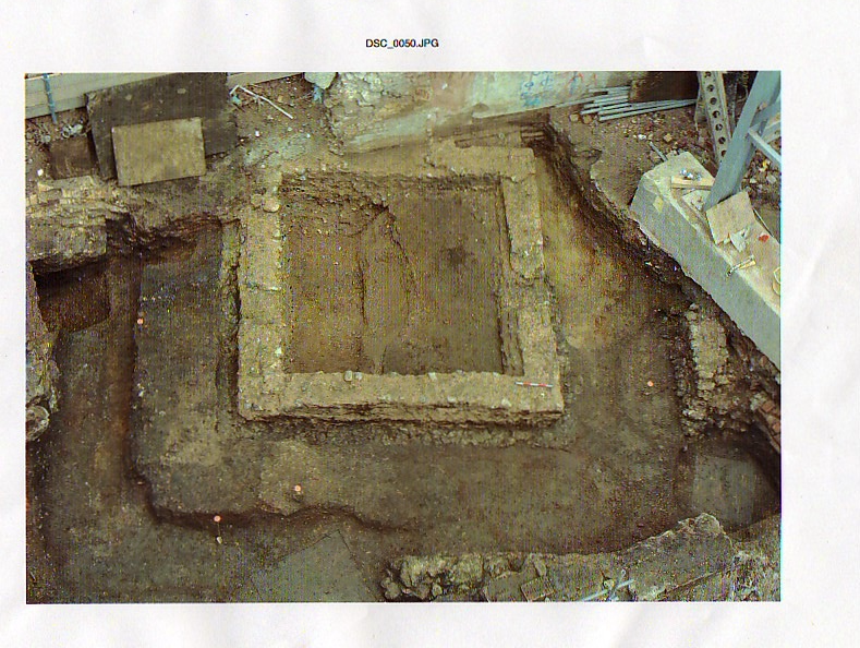 Romano celtic temple construction phase at 56 Gresham Street, London